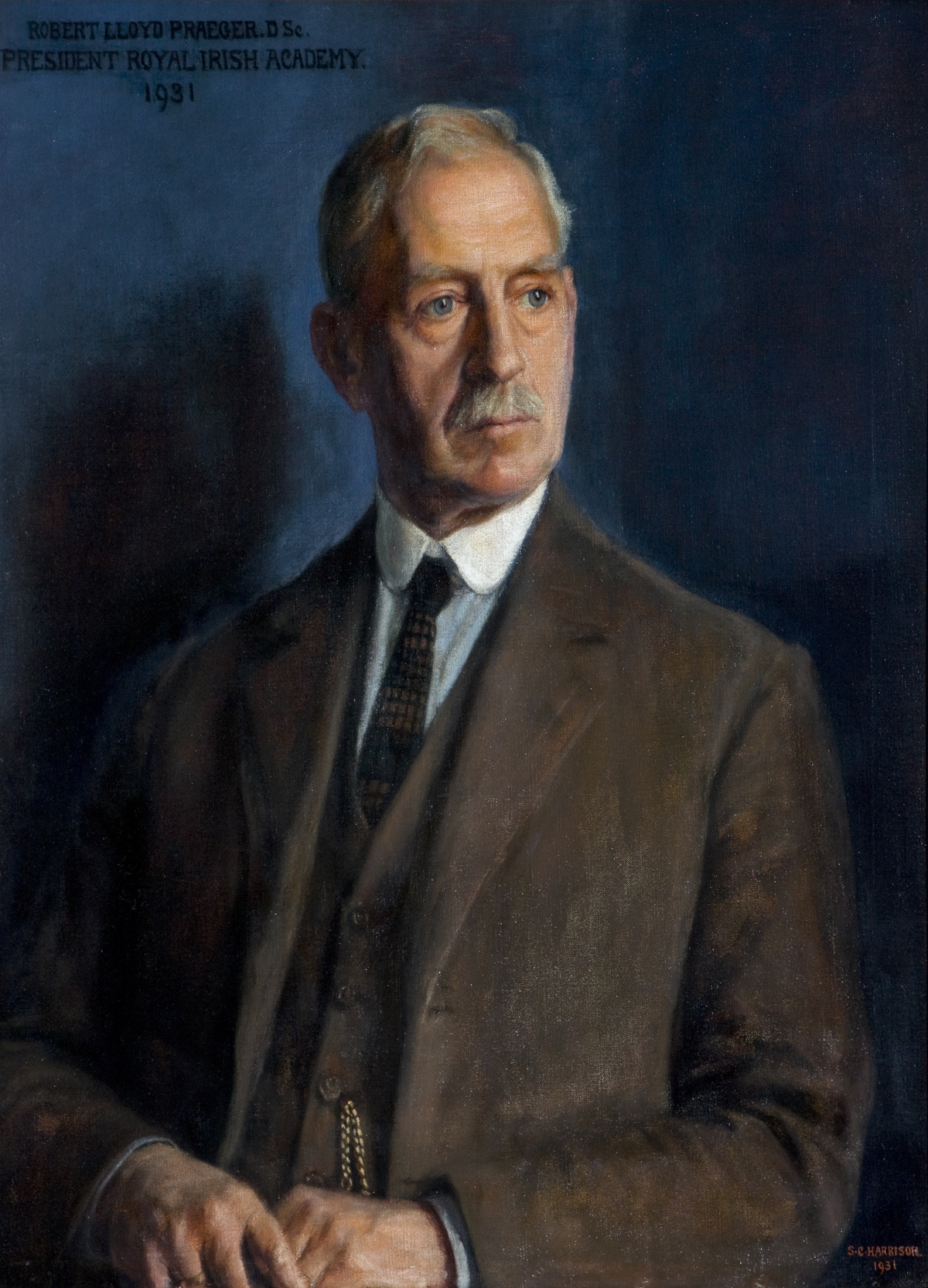 Robert Lloyd Praeger by Sarah Cecilia Harrison, National Museums Northern Ireland; Supplied by The Public Catalogue Foundation